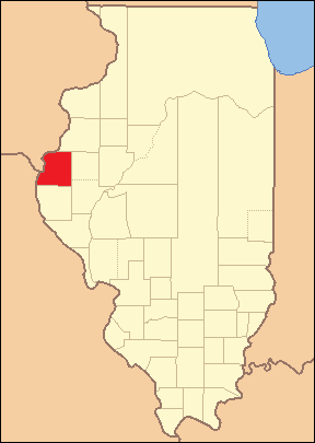 Locator Map of Hancock County, Illinois, 1825. Based on: Illinois Secretary of State. Origin and Evolution of Illinois Counties. March 2010. p. 45.